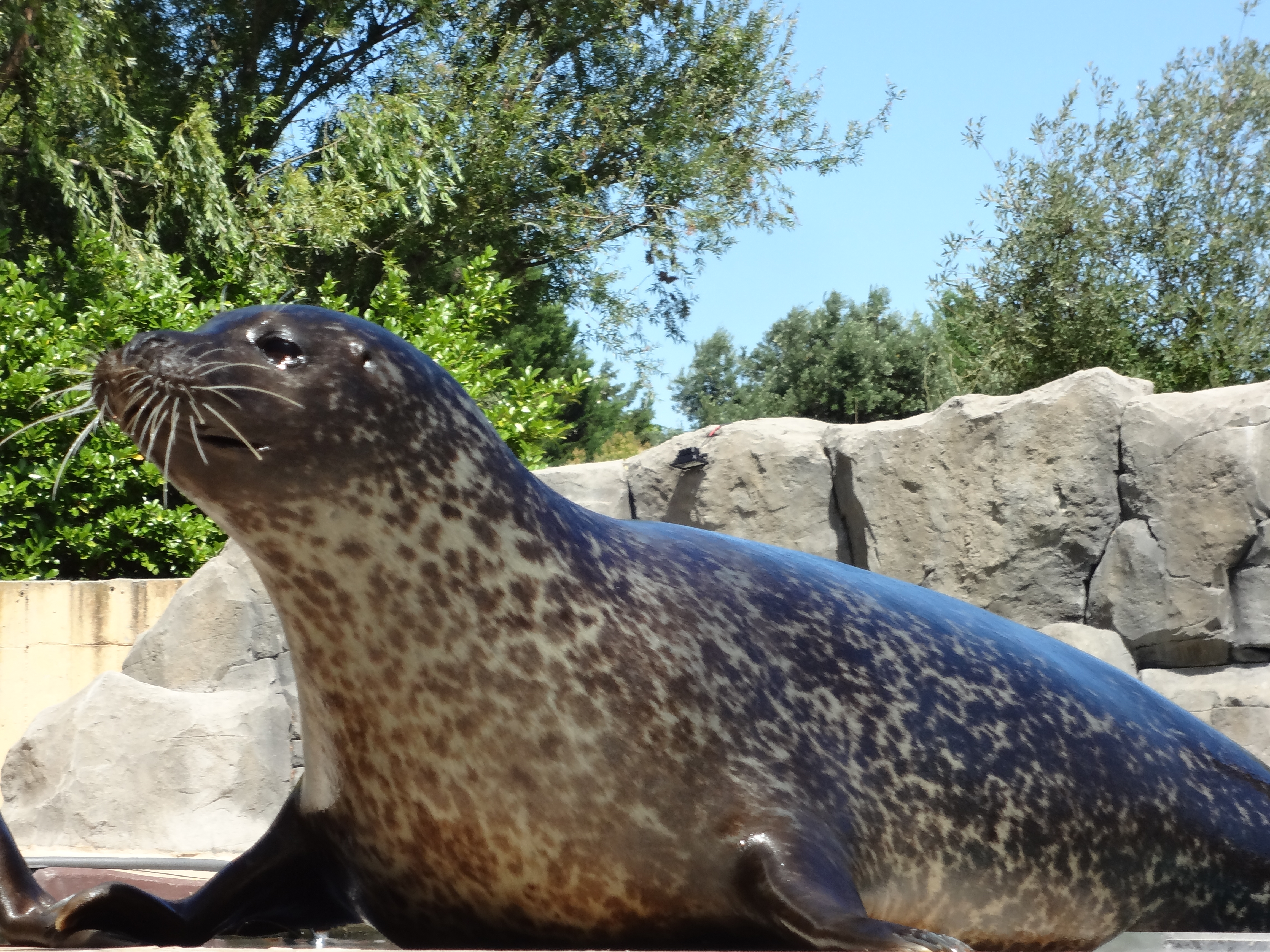 Faunia in Madrid, Spain